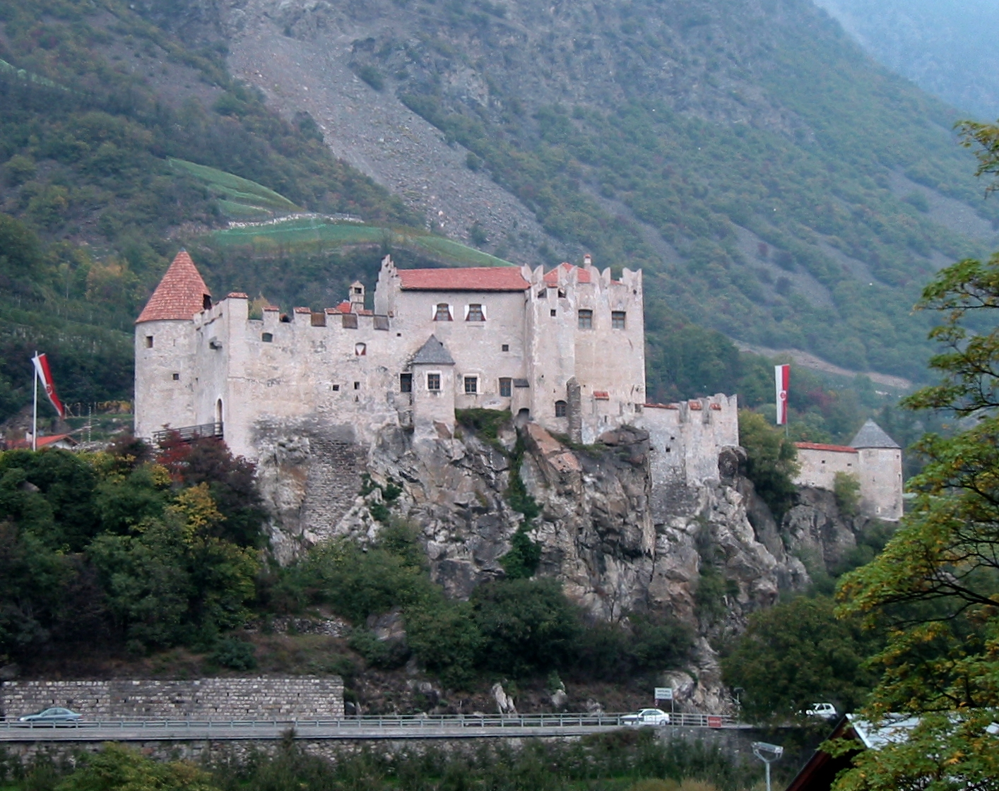 The Castle of Kastelbell-Tschars in South Tyrol, north Italy.